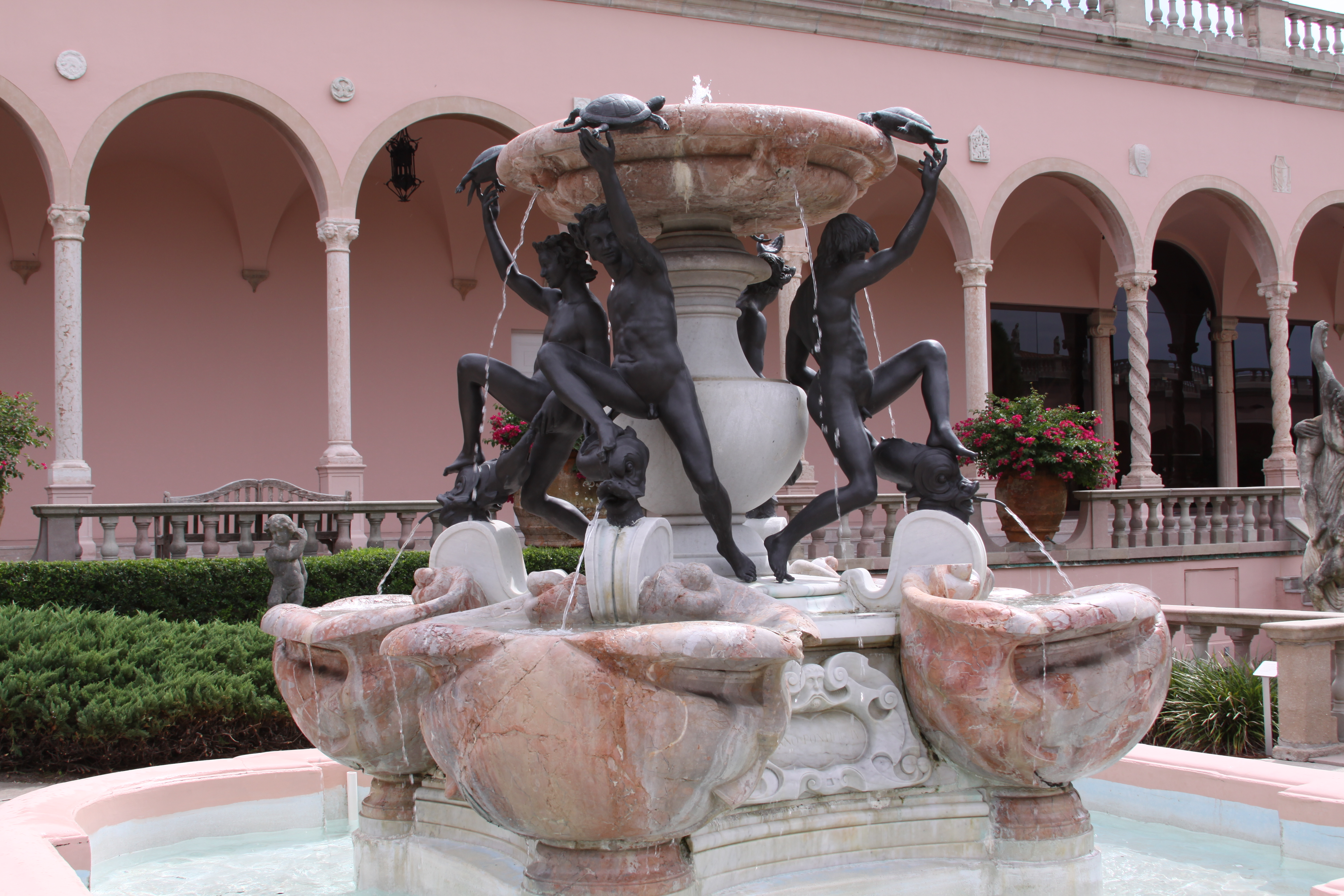 The Fountain of the Tortoises in the Courtyard of The John and Mable Ringlin Museum of Art is a modern copy of the sixteenth-century fountain by the italian Jacopo della Porta.